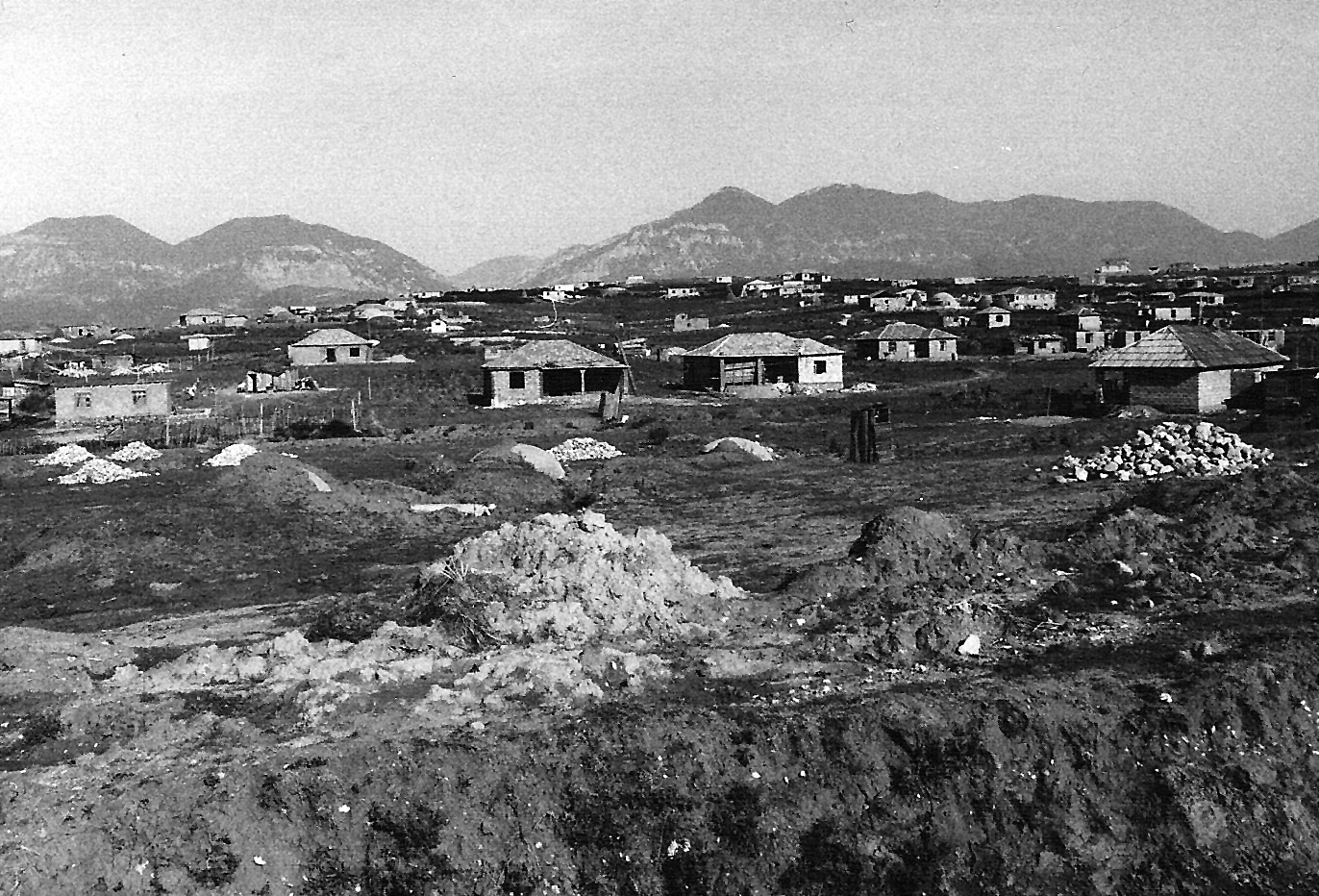 Bathore – illegal settlement north of Tirana